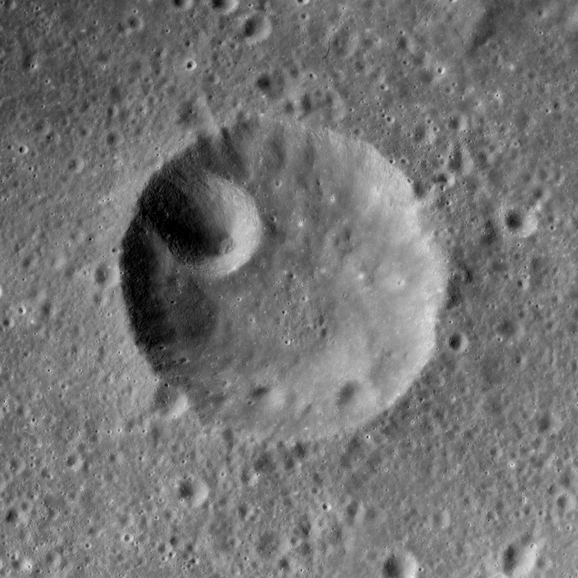 Fischer crater, within Mendeleev crater, on the far side of the moon.